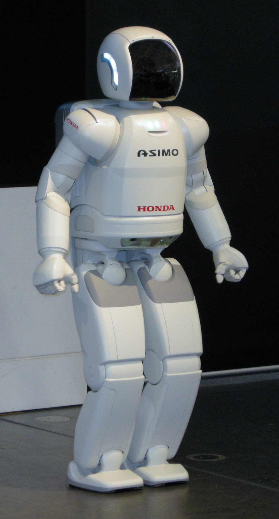 2005 3rd Honda ASIMO photographed in Honda Welcome Plaza Aoyama (Minato, Tokyo)